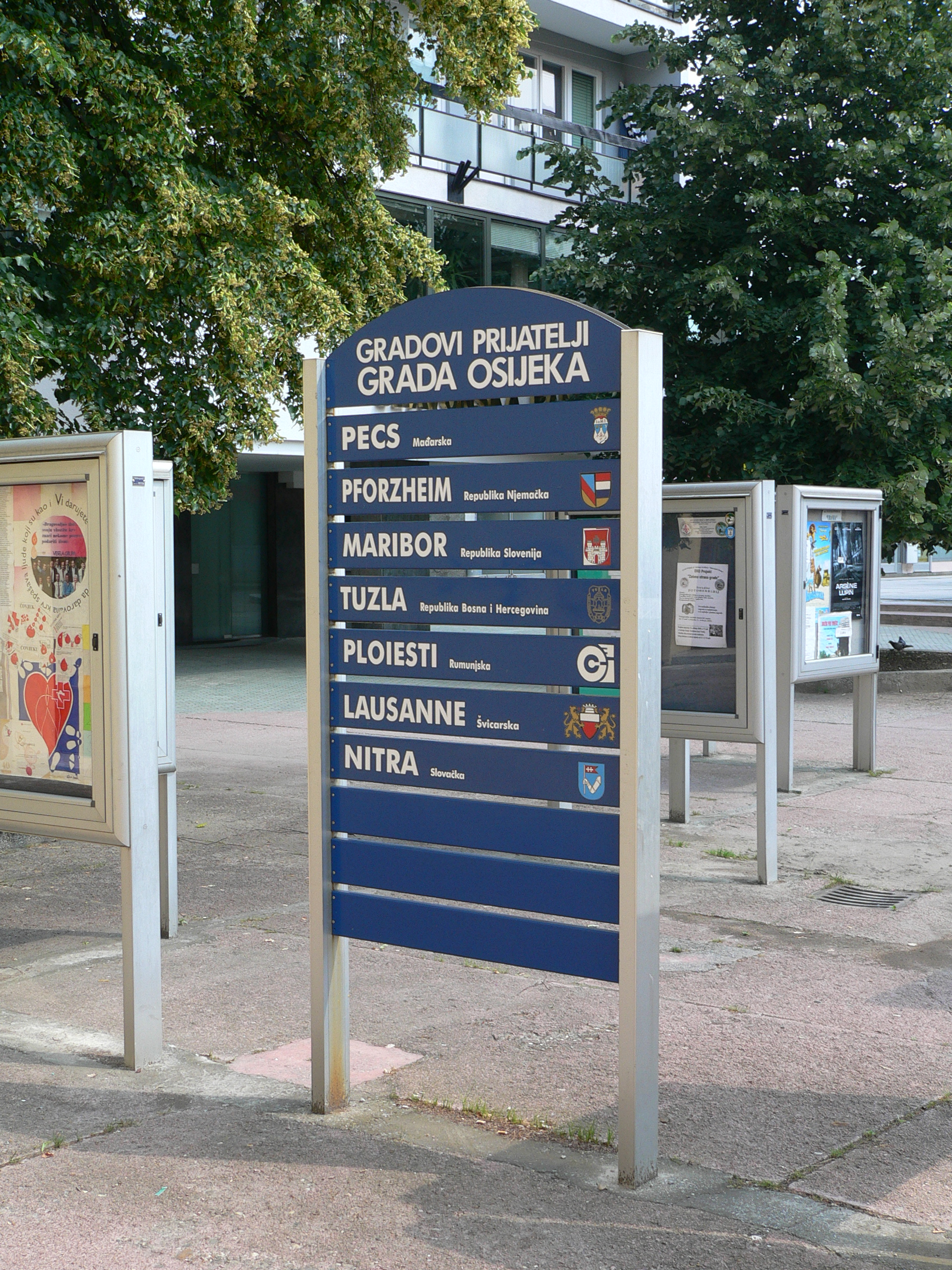 Twin towns sign, Osijek